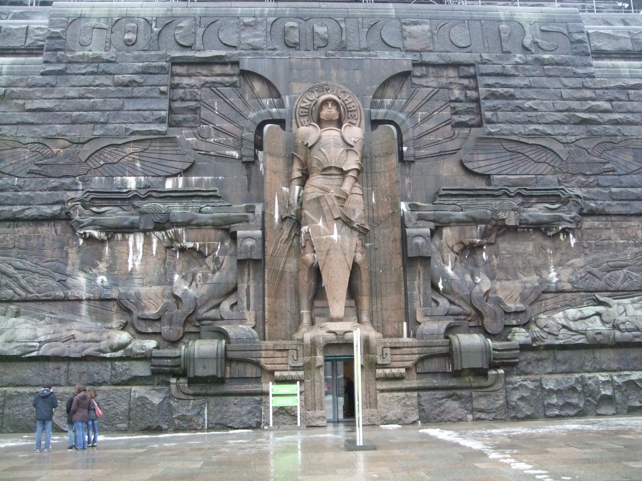 Entrance to the Völkerschlachtdenkmal ("Monument to the Battle of the Nations") in Leipzig with the Archangel Michael, the patron saint of Germany, and the inscription Gott mit uns ("God with us"). (photograph taken in winter)